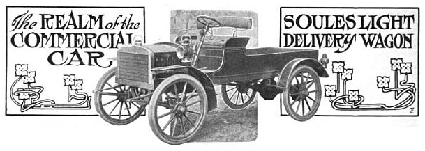 Soules Motor Car Company - Grand Rapids, Michigan - Commercial vehicles - 1905